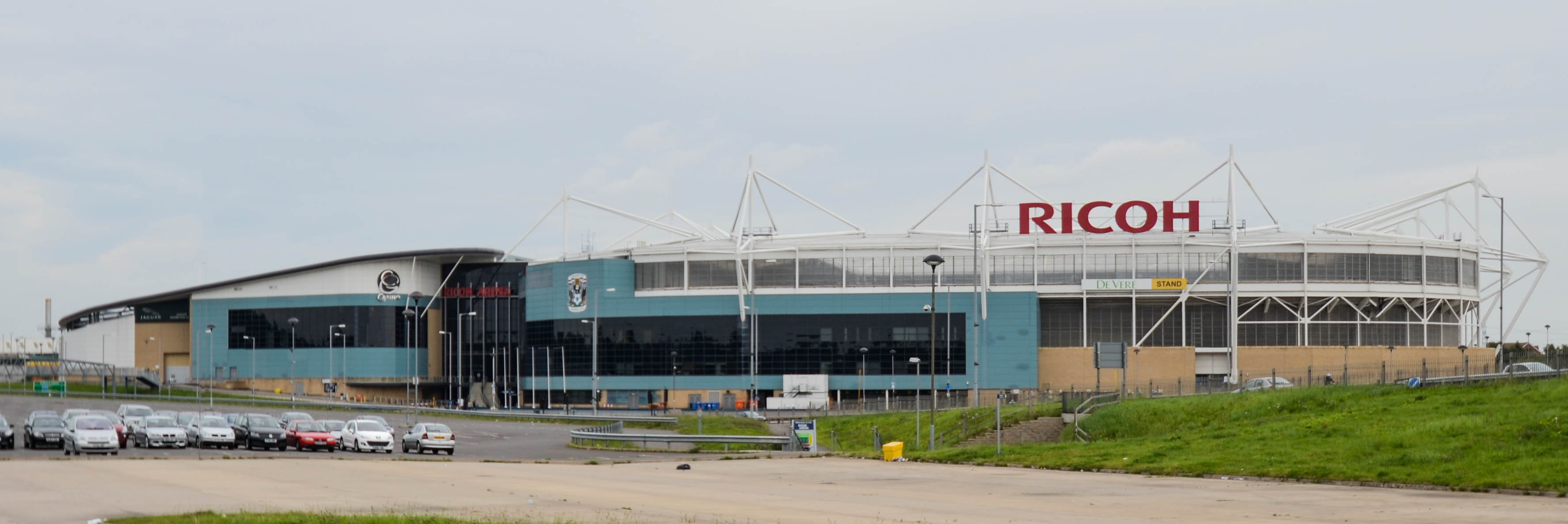 J1 - Ricoh Arena in Coventry, UK